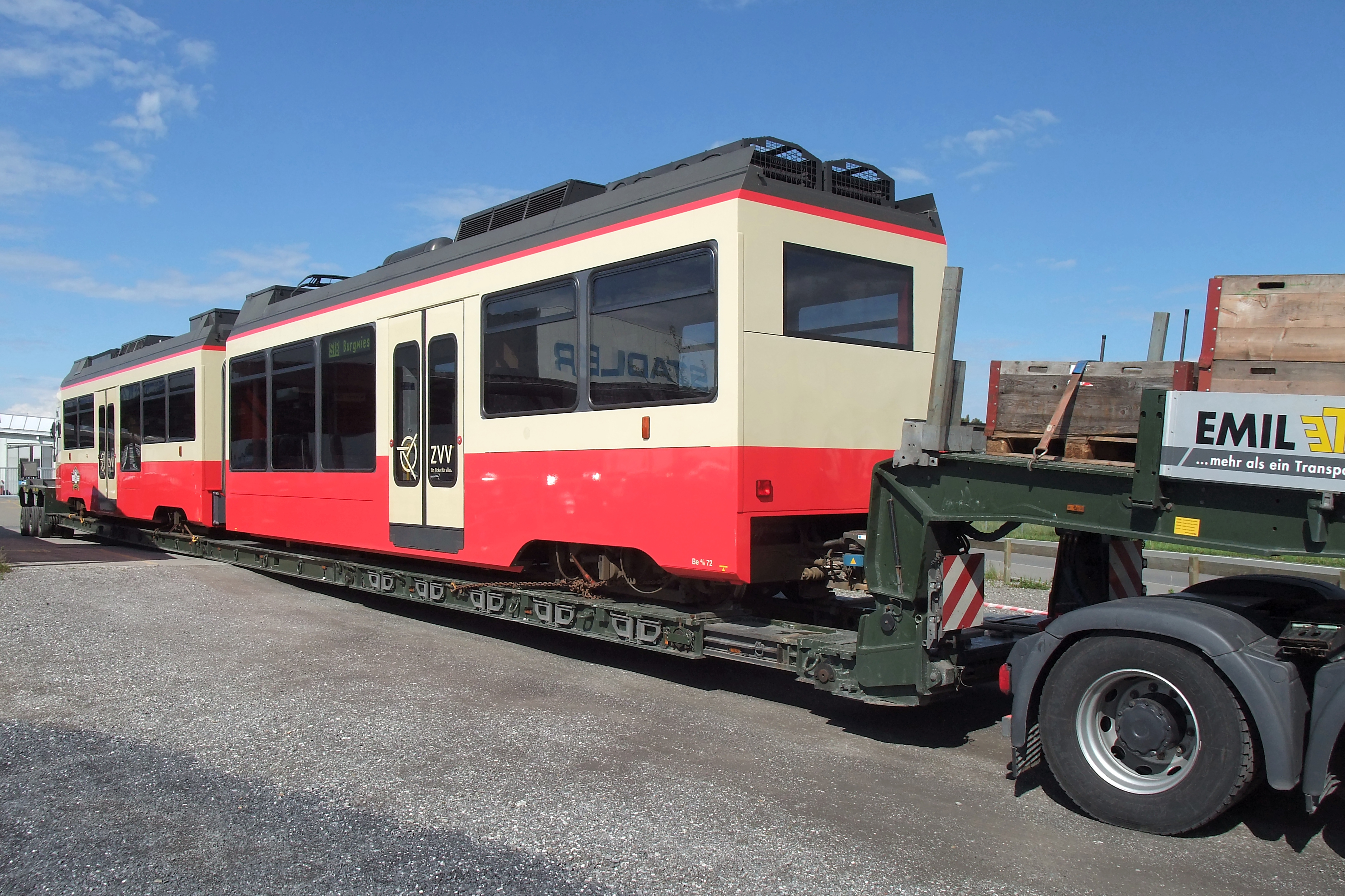 The Be 4/6 was delivered by Stadler already in 2004. So this is not a new tram from the Stadler factory. Because the tram fits on a low bed trailer it is transported by road. Altenrhein, Switzerland, May 7, 2012.